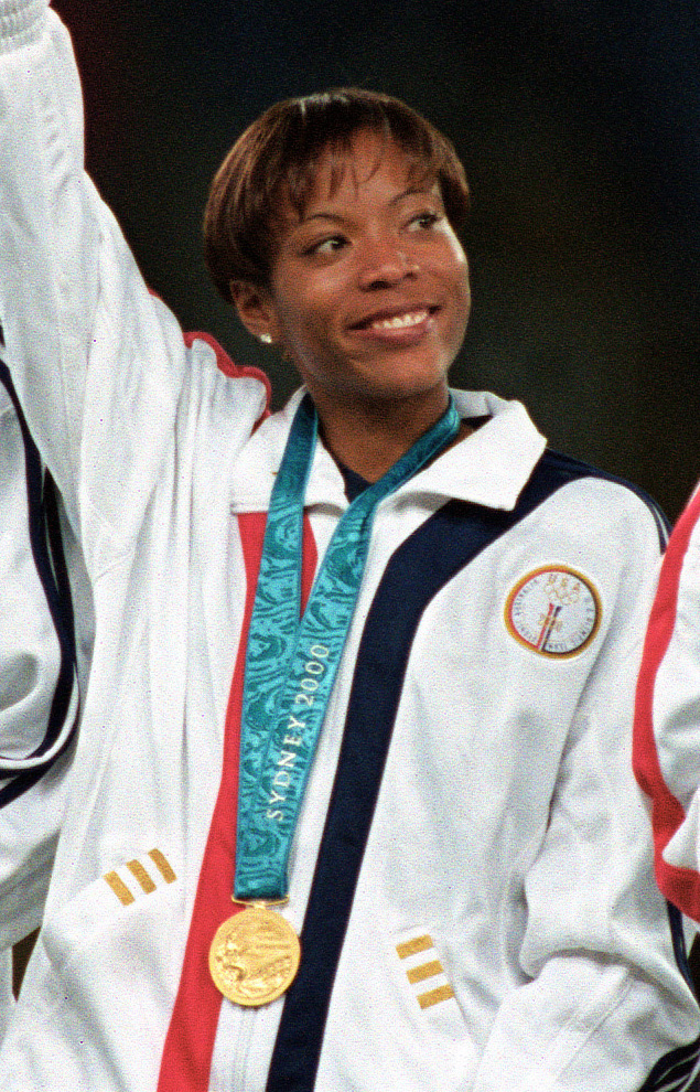 LaTasha Colander - September 30th, 2000 at the 2000 Sydney Olympic Games.